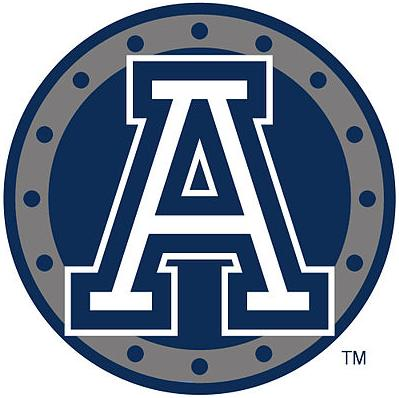 This logo was used in the 2005 Toronto Argonaut season.